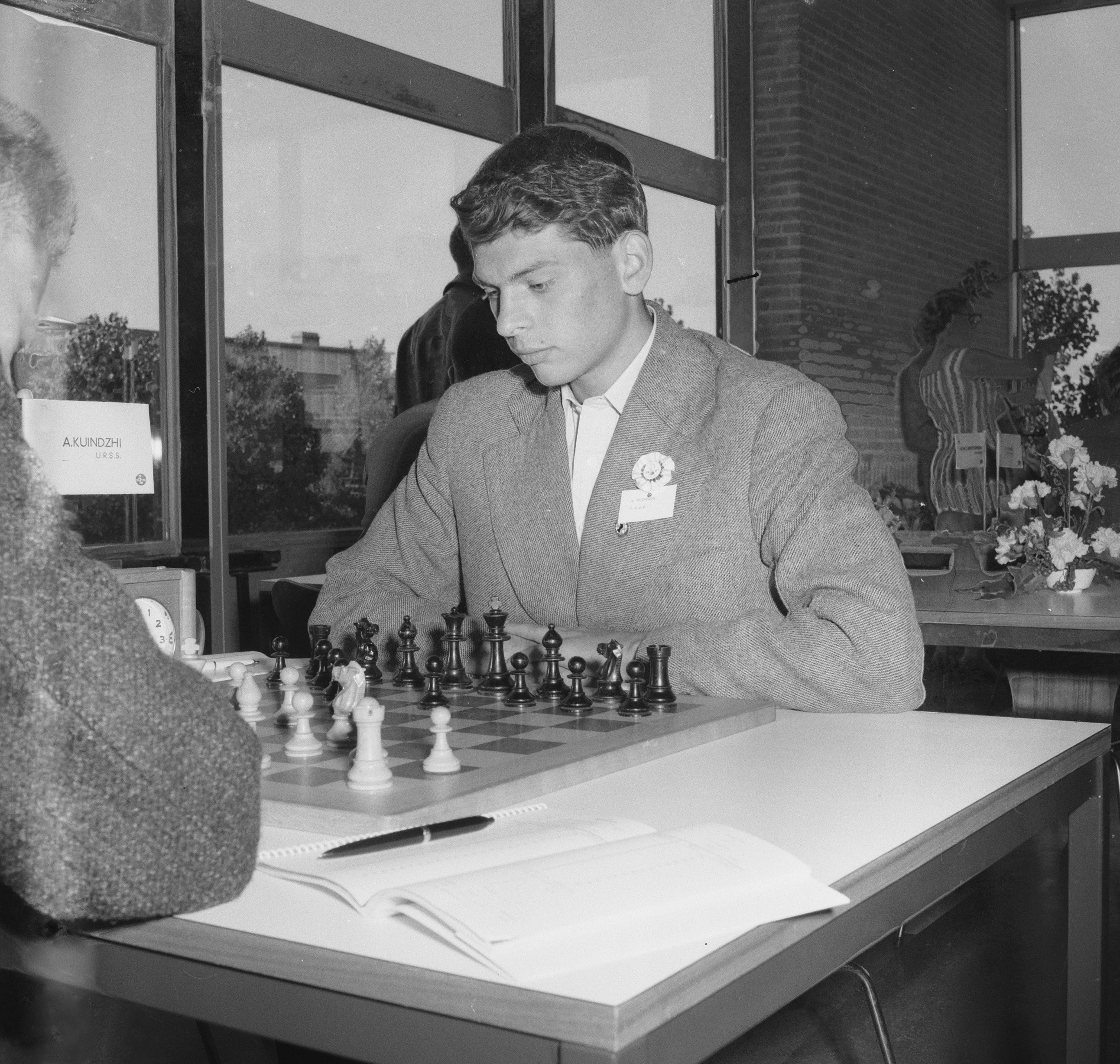 Alexander Kuindzhi (Kuindzhy), World Junior Chess Championships, August 1961